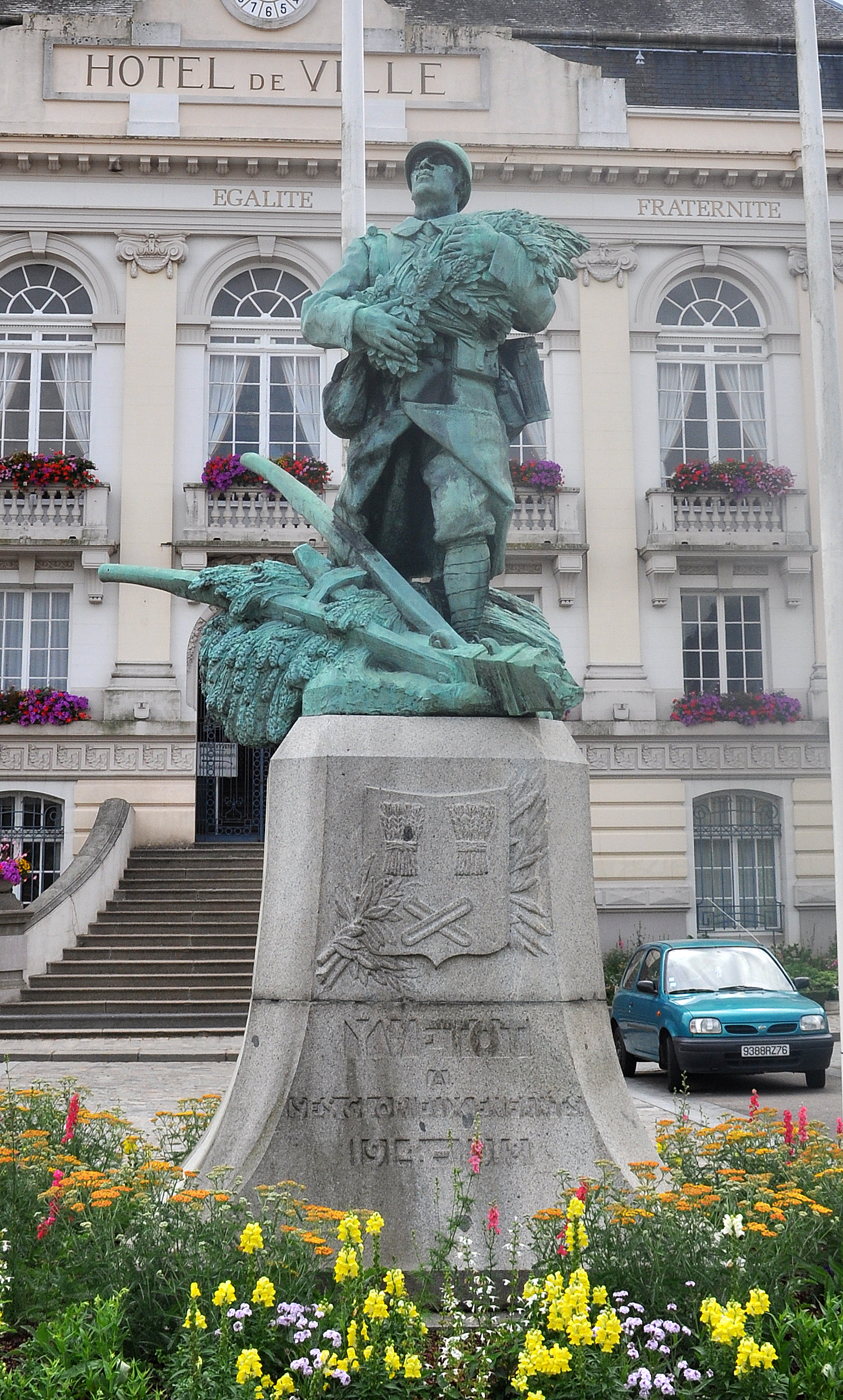 WWI Memorial at the Place de l'Hôtel de Ville in Yvetot. Made by Paul Moreau-Vauthier in 1923.